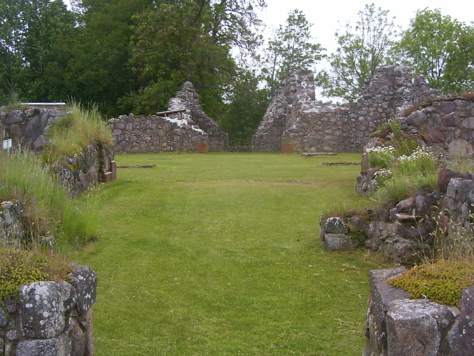 Monastery Kronobäck, Mönsterås Municipality, Sweden